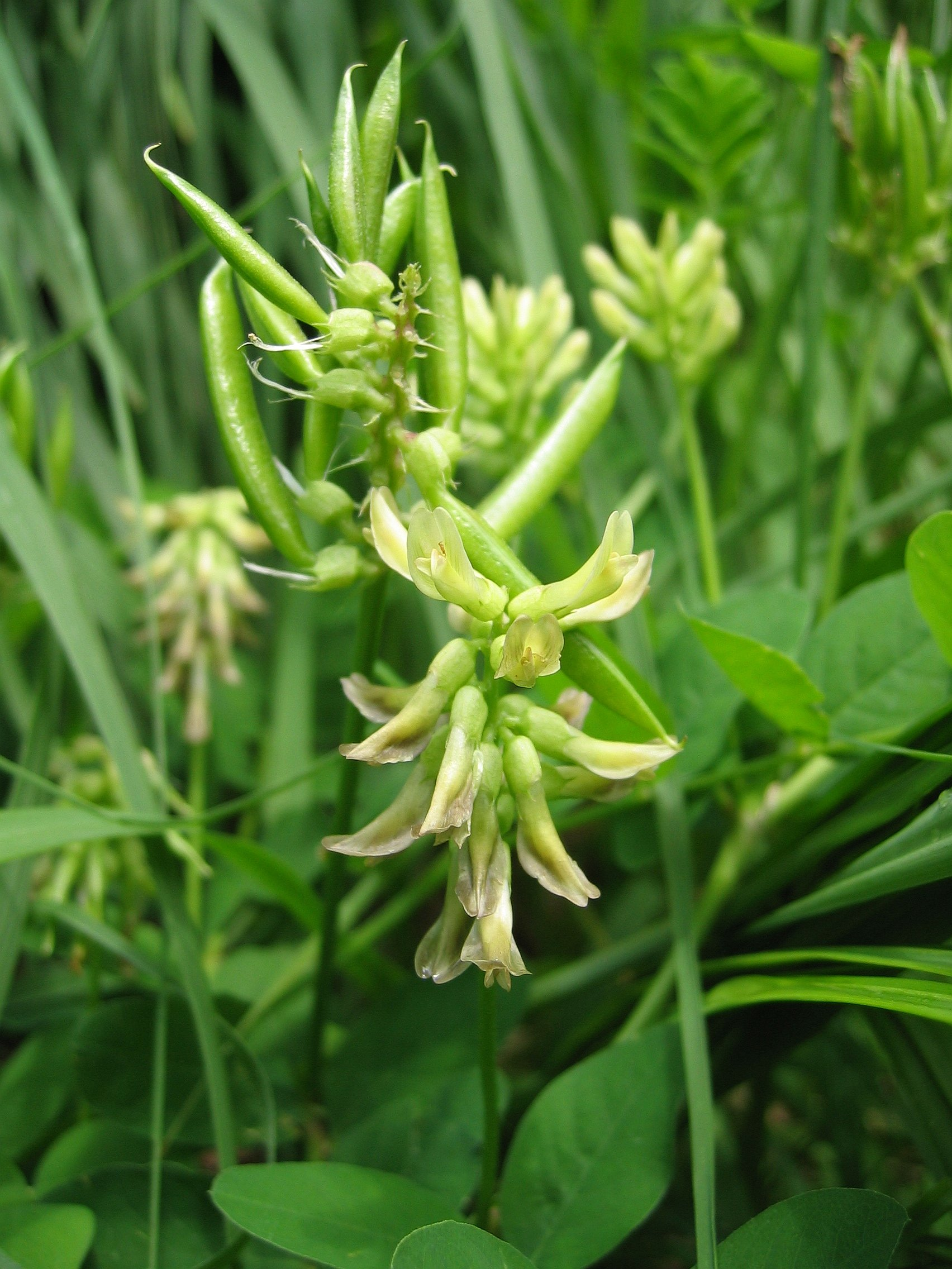 Astragalus glycyphyllos, East Side of Traunsee ~550 m, Upper Austria, Austria